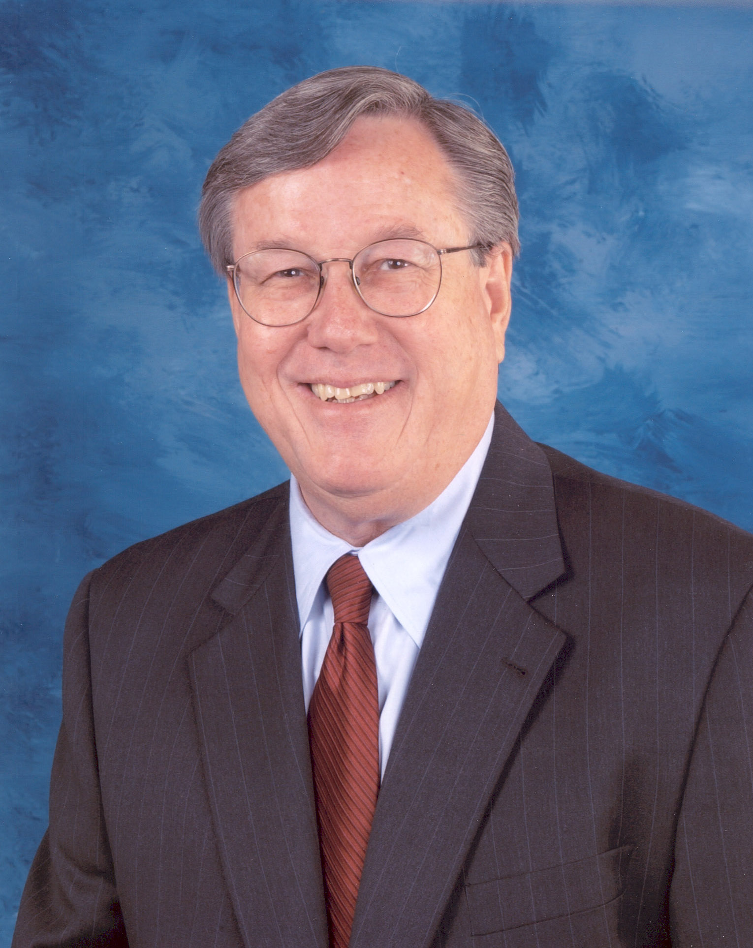 Bill Thomas, U.S. Congressman (R-California, 1979-2007).